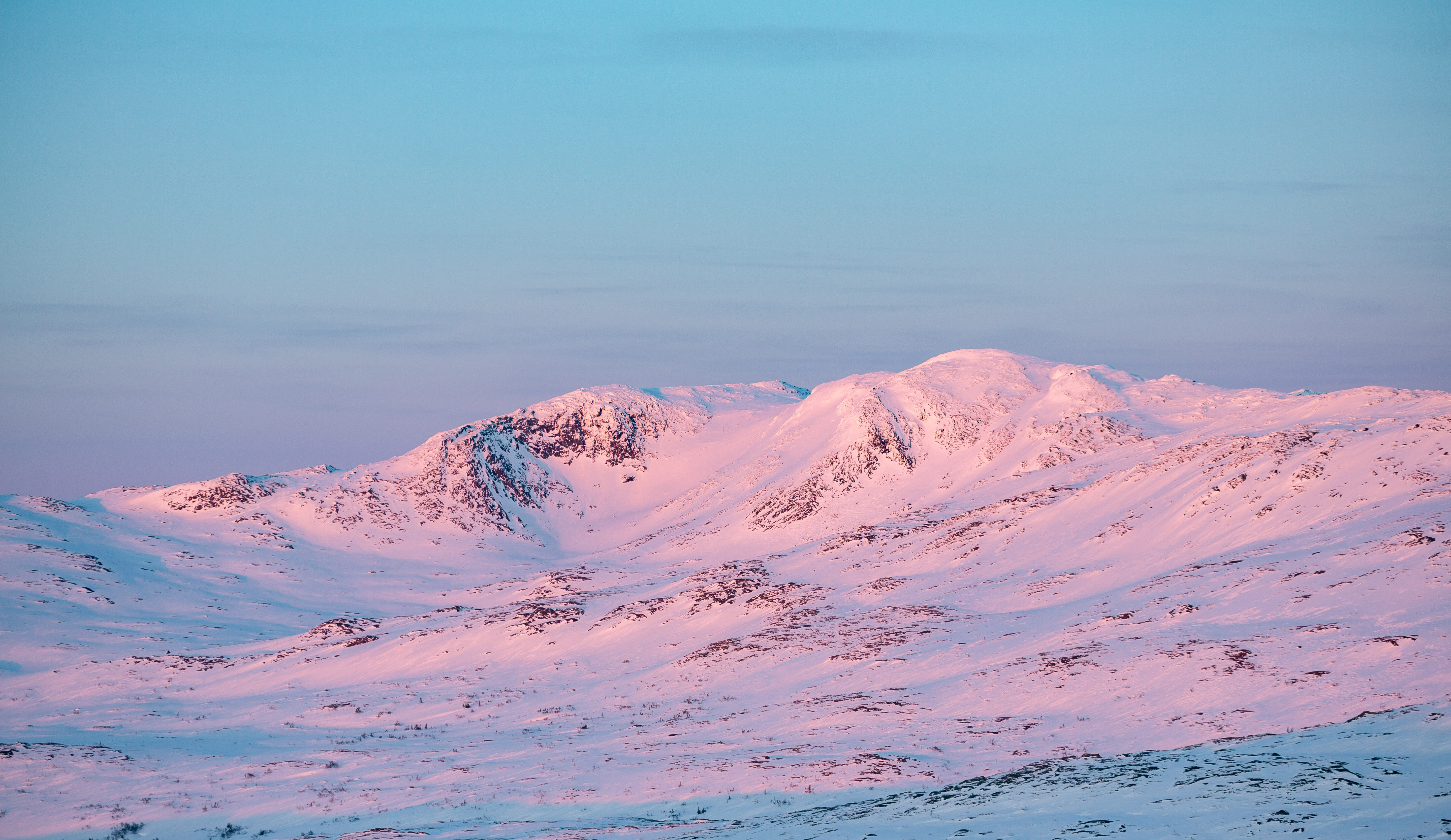 Skarvan in the sunset in winter as seen from west from the top of Gråfjellet, Sylan, Norway